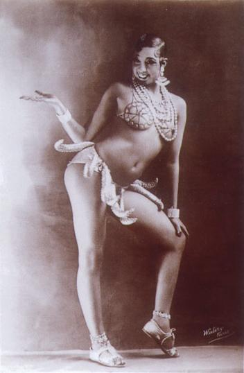 Joséphine Baker: "Girdle of Bananas" 1926 Joséphine pictured in her most famous outfit - the legendary 'girdle of bananas'. First seen in her debut revue at the Folies Bergère: La Folie du Jour, 1926-27, there were several variations of this costume over the years.